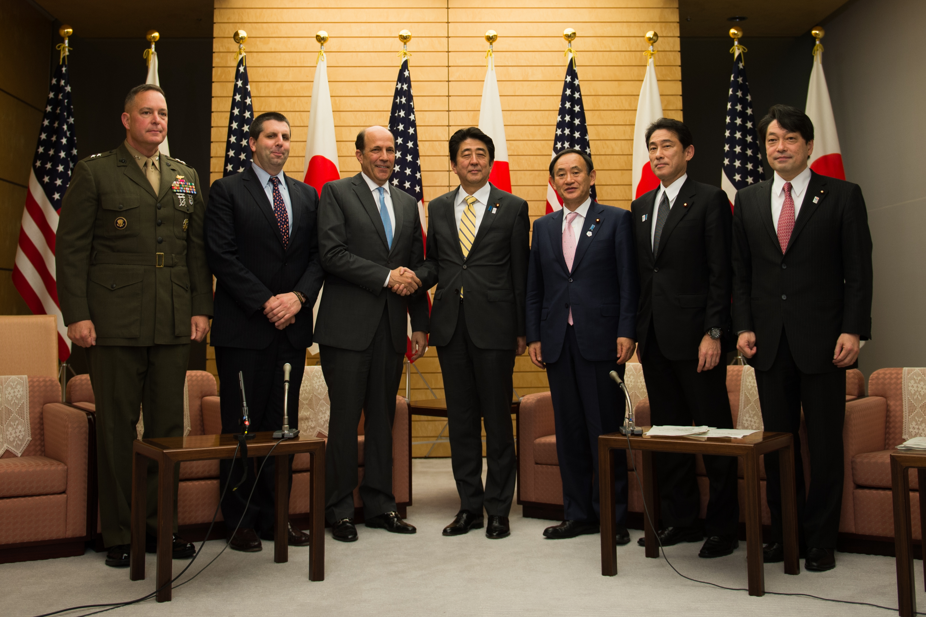 U.S. Ambassador to Japan John V. Roos and Japanese Prime Minister Shinzo Abe pose for a photo at the joint press announcement of the Okinawa Consolidation Plan, with, from left: U.S. Major General Andrew W. O'Donnell, Jr.; Deputy Commander of the United States Forces, Japan; U.S. Assistant Secretary of Defense Mark W. Lippert; Japanese Chief Cabinet Secretary Yoshihide Suga; Japanese Minister of Foreign Affairs Fumio Kishida; and Japanese Minister of Defense Itsunori Onodera, in Tokyo, Japan, on April 5, 2013. [State Department photo by William Ng/ Public Domain]